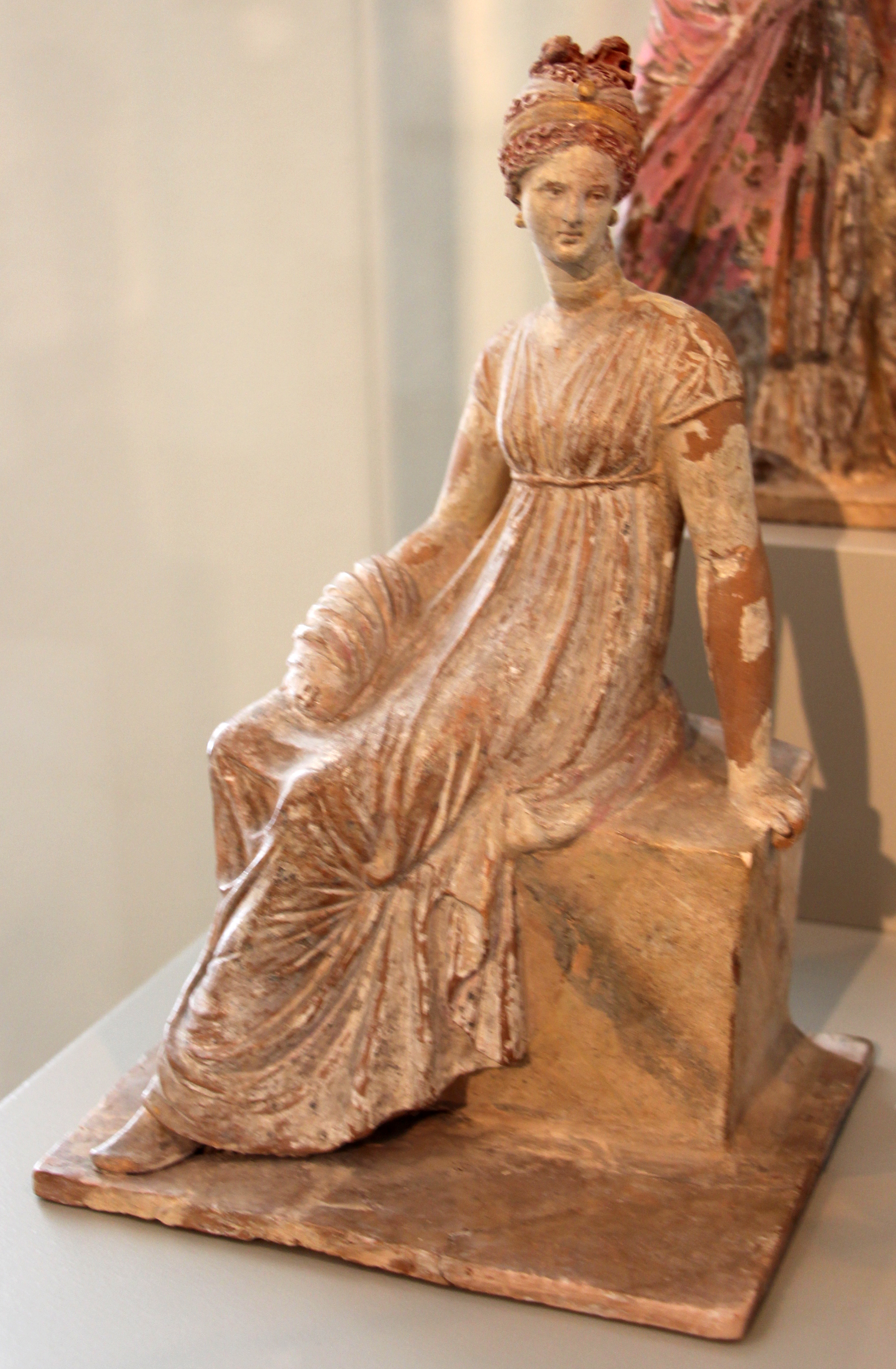 Ancient Greek terracotta in the Antikensammlung Berlin